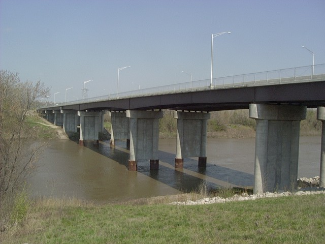 The Turner Diagonal is a short freeway in Kansas City, Kansas. This image is from the access road near the Kaw river.